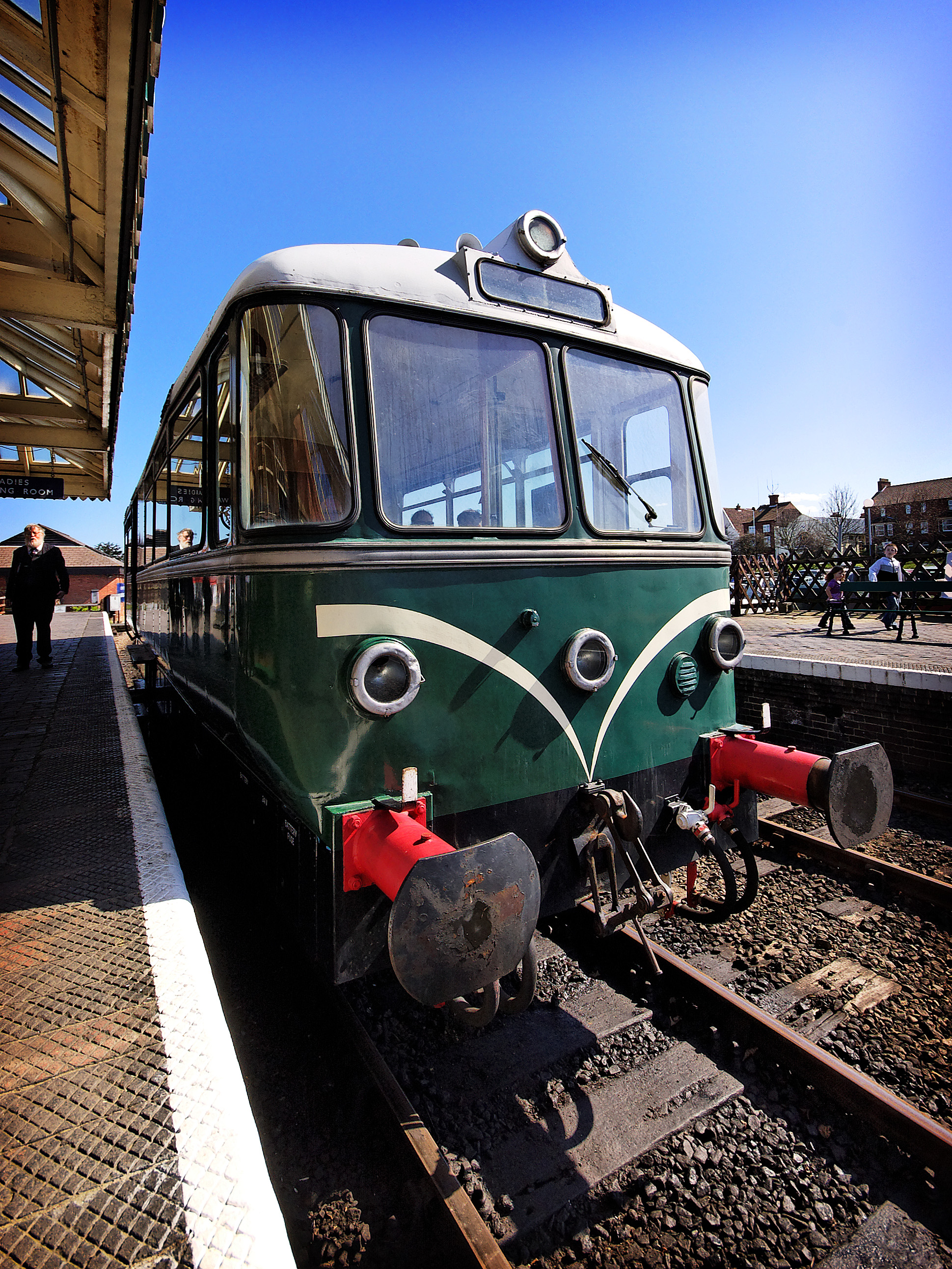 The main feature of railbuses is that the driver is integrated into the car itself without any separation with travelers.